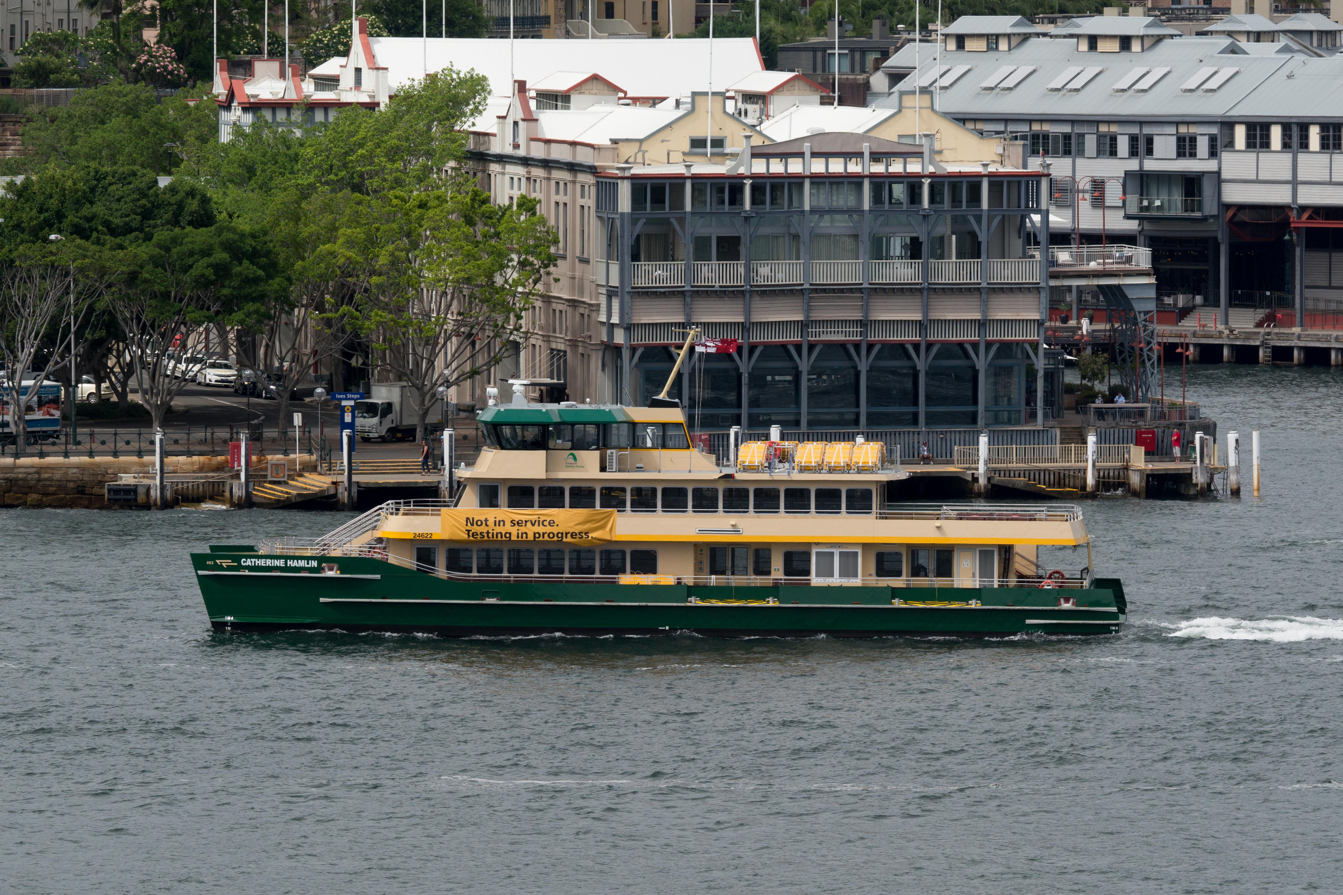 Sydney ferry Catherine Hamlin undergoing testing.